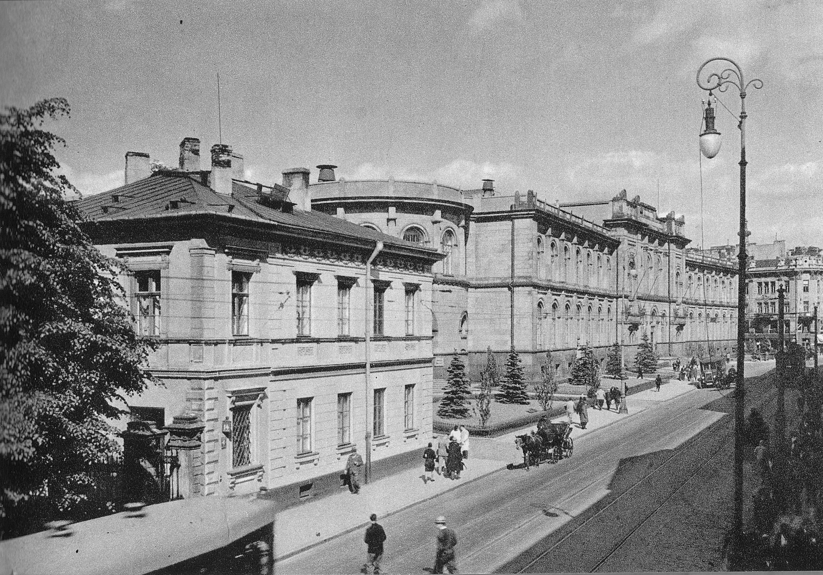 Bielańska Street in Warsaw, view to the south